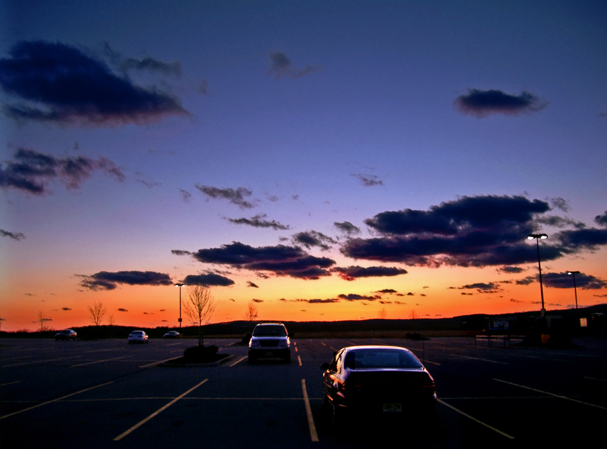 End-of-day sky, Budd Lake, New Jersey.